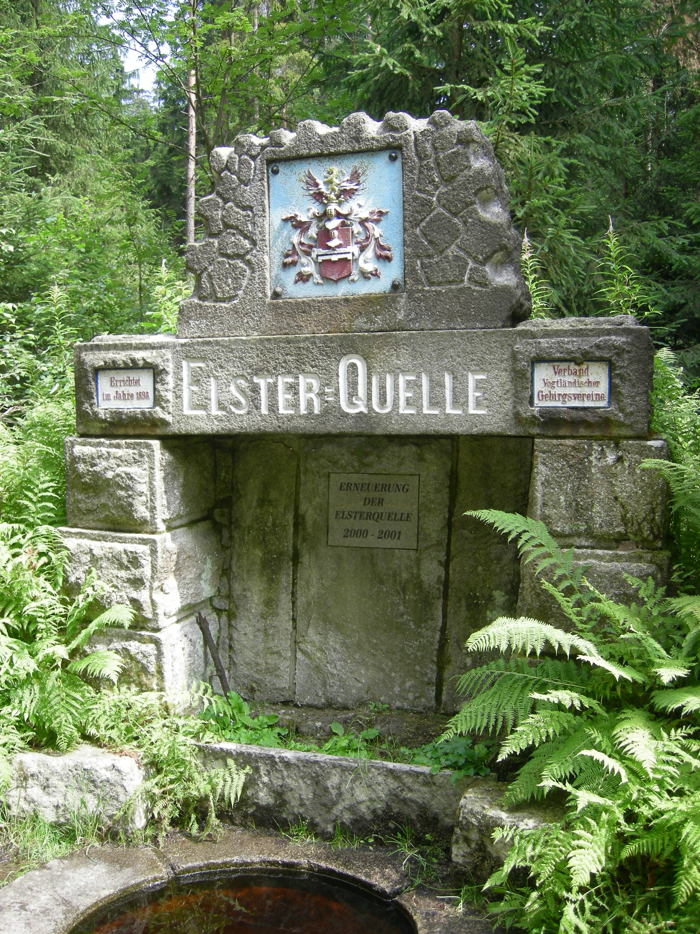 Source of the Weisse Elster in the westernmost part of the Czech Republic, near Aš.